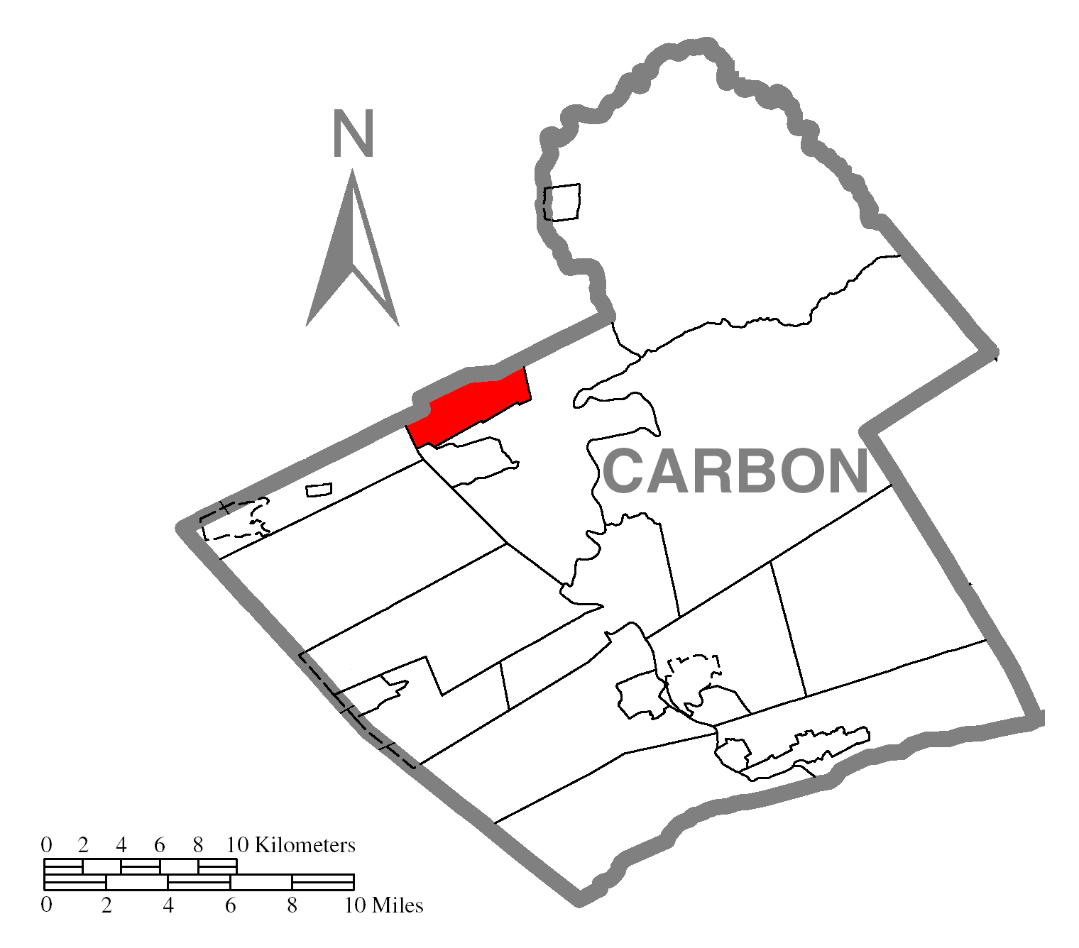 A map of Carbon County showing Lausanne Township, Pennsylvania (alternate) highlighted on the map.